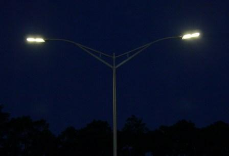 Photograph of an LED streetlight.